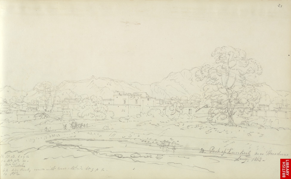 Part of Kankhal, near Haridwar, 1813. Pencil drawing of Kankhal in Uttar Pradesh by Robert Smith (1787-1873) in 1813. This is one of 29 drawings (29 folios) of landscapes and architecture in the Punjab and Uttar Pradesh dating to 1812 and 1813. Inscribed on the original cover is: 'No. 4. Rewarry & Seik Country: Siharunpoor & Hurdwar. Lines of March etc.'; on the inside of the cover is: 'Drawn by Col Smith. R.E. Owner of the extensive round house at Paignton, Devon. Book of Sketches sold by auction at the above house - 4 of the books purchased by me. J. Pethwick. The Colonel was splendid as a draftsman, but the worst possible as a painter.' The drawings are inscribed with titles in pencil. The holy city of Kankhal is situated near to Haridwar in Uttar Pradesh. The temple of Dakseshwara at Kankhal has an important legend associated with it. At this place it is believed Shiva’s wife, Sati, burnt herself to death. Sati was given in marriage by her father King Daksa to Shiva. Daksa performed a yagya (major ceremonial sacrifice) but did not invite Shiva to the ceremony. Sati, feeling insulted, burnt herself to death in the 'yagya kund' at the ceremony. On hearing this, Shiva’s followers killed Daksa. Later Shiva restored Daksa to life giving him the head of a goat. Shiva carried Sati’s body and danced in grief whereupon the gods cut her corpse into pieces. At many of the places where parts of her body fell temples were established.